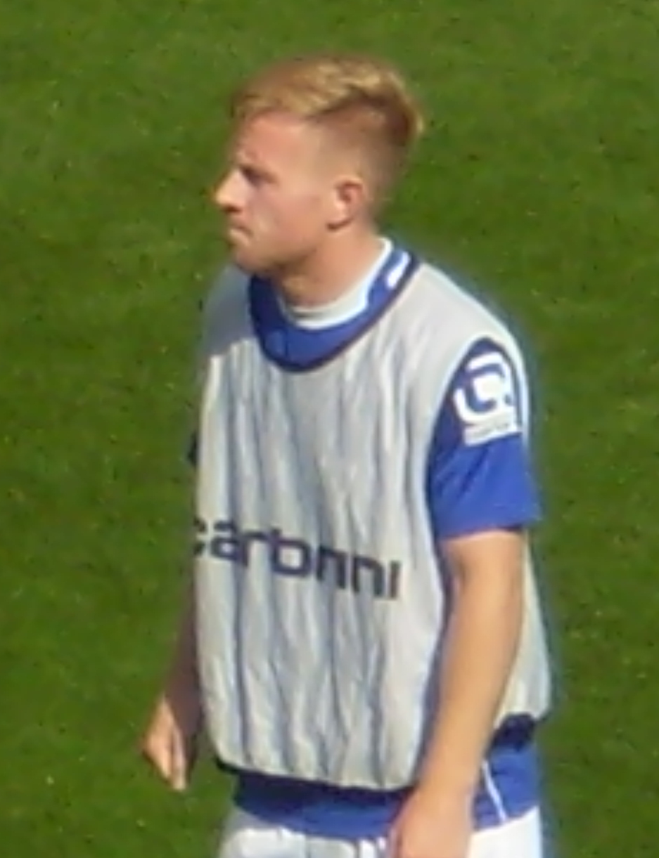 Mark Duffy of Birmingham City F.C. during a match at Brentford F.C. in August 2014